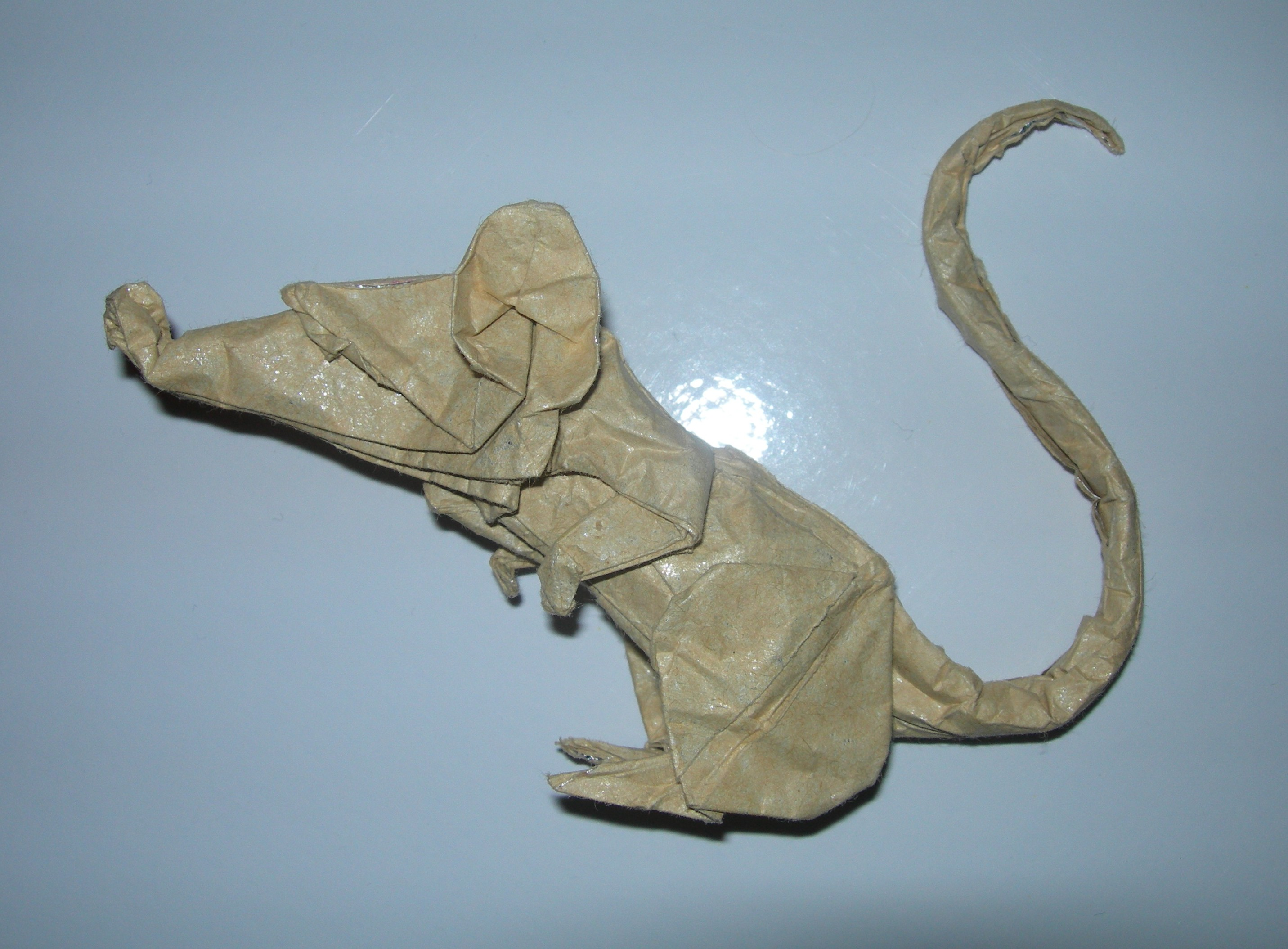 Rat origami (Éric Joisel model)